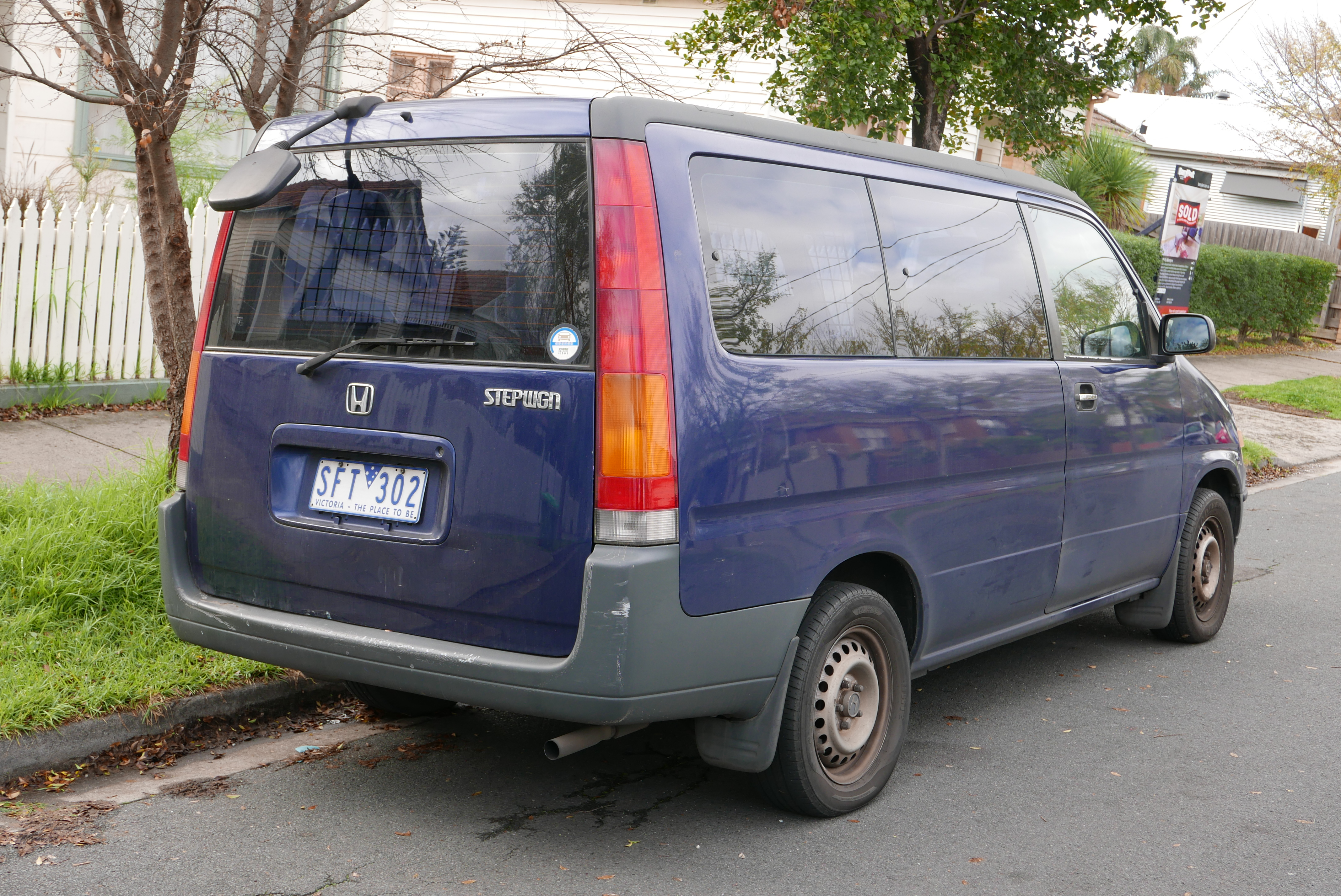 1997 Honda StepWGN N van. This is a grey import from Japan, complianced for Australia in May 2003. Photographed in Thornbury, Victoria, Australia. Vehicle registration enquiry results Jurisdiction Victoria Registration SFT302 Chassis code 6U90000RF11093799 Engine code B20B3137955 Compliance date 2003-05 Year of manufacture 1997